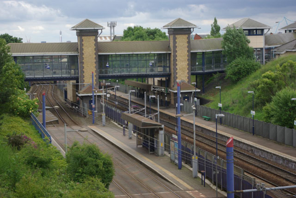 The Hawthorns Station This was originally part of the Great Western Railway's main line between Birmingham and Wolverhampton, opened in 1854. In 1931, 31 years after the opening of West Bromwich Albion's stadium a few yards up the road, the GWR opened a halt, partly on the site pictured here, which was used only on match days. The Hawthorns Halt closed in 1968, although a fairly skeletal passenger service continued to pass this way until 1972 when trains between Birmingham Snow Hill, Wolverhampton Low Level and Langley Green were withdrawn. The line remained open for the occasional freight train to a scrapyard at Handsworth, but it looked as though this grand old route had effectively disappeared for ever. All that changed in 1995, when the line was reopened for a completely new service connecting a reopened Snow Hill and the Kidderminster line; this was partly intended to relieve congestion at New Street station. This time The Hawthorns was a fully fledged station with a regular service. In 1999 the Midland Metro opened providing a tram service between Birmingham and Wolverhampton mainly following the old Great Western line; the tram stop can be seen in the foreground. Passengers therefore now have the choice of tram or train to travel from here into central Birmingham.